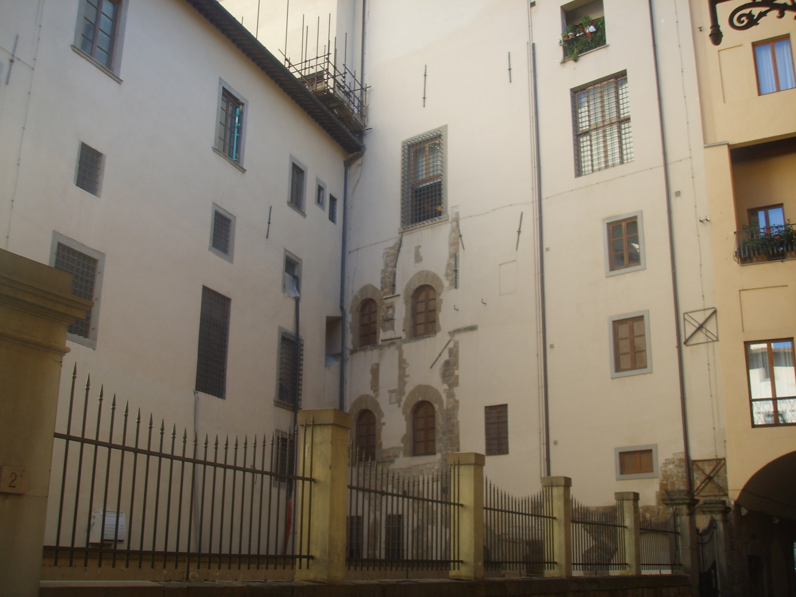 Houses in Via de' Georgofili